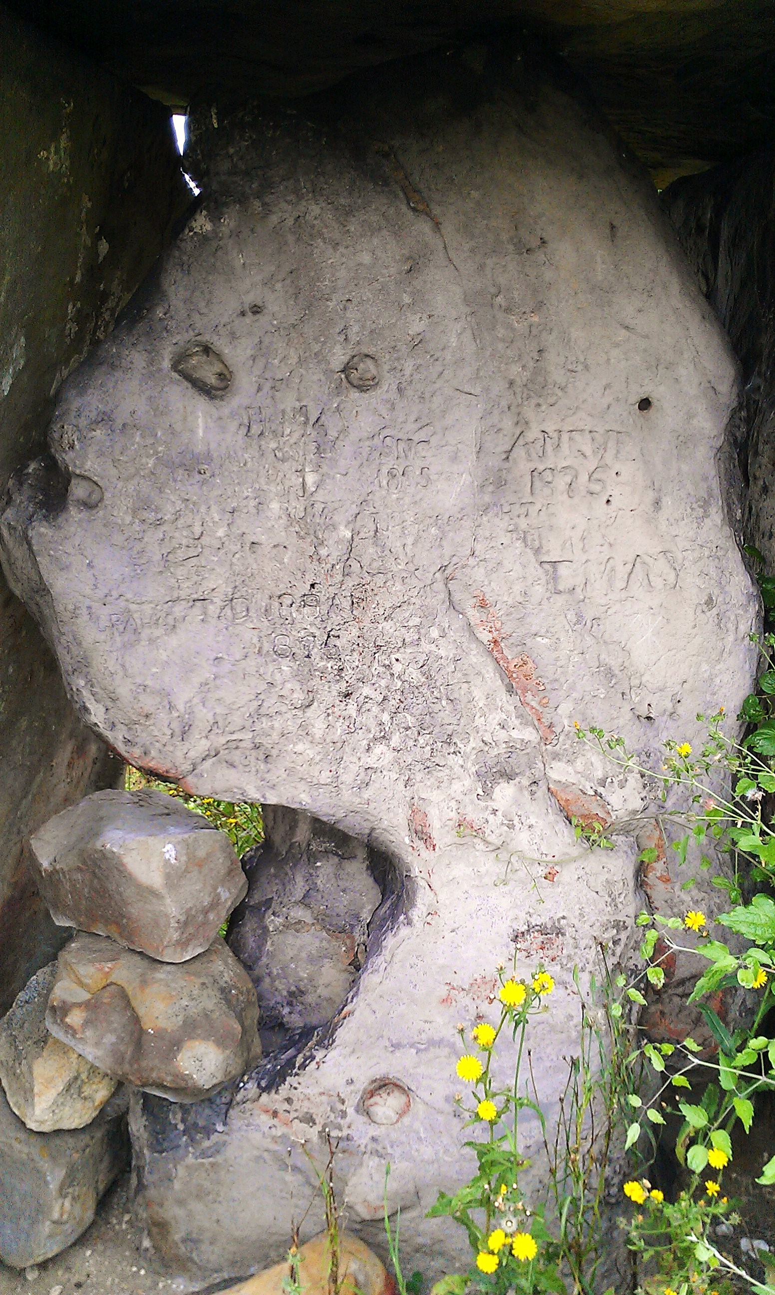 The back of the slab on the Early Neolithic chambered tomb of Kit's Coty House in Kent, one of the Medway megaliths. There is graffiti, much of it dating to the nineteenth century, carved into it.